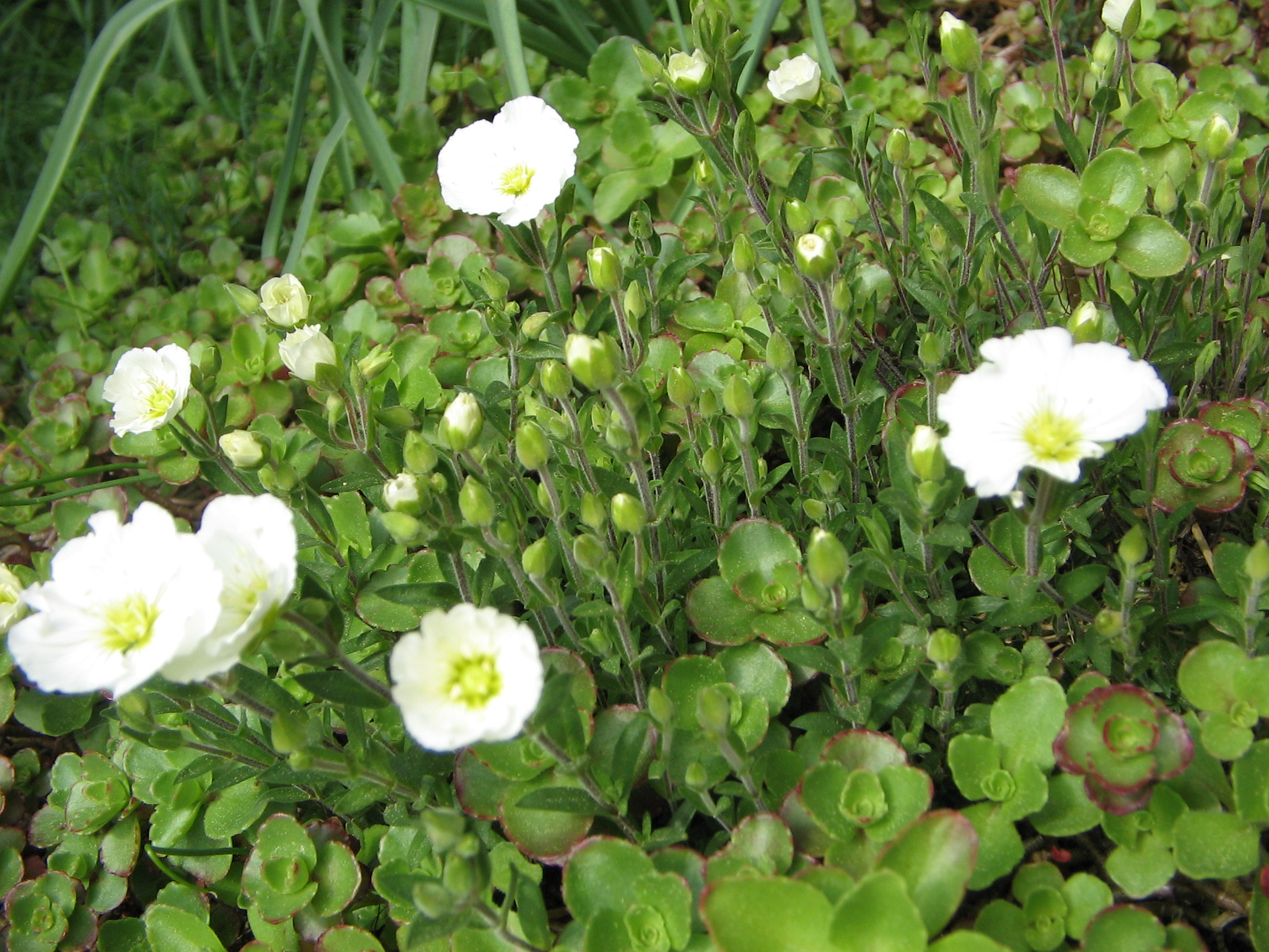 Arenaria montana in my rock garden